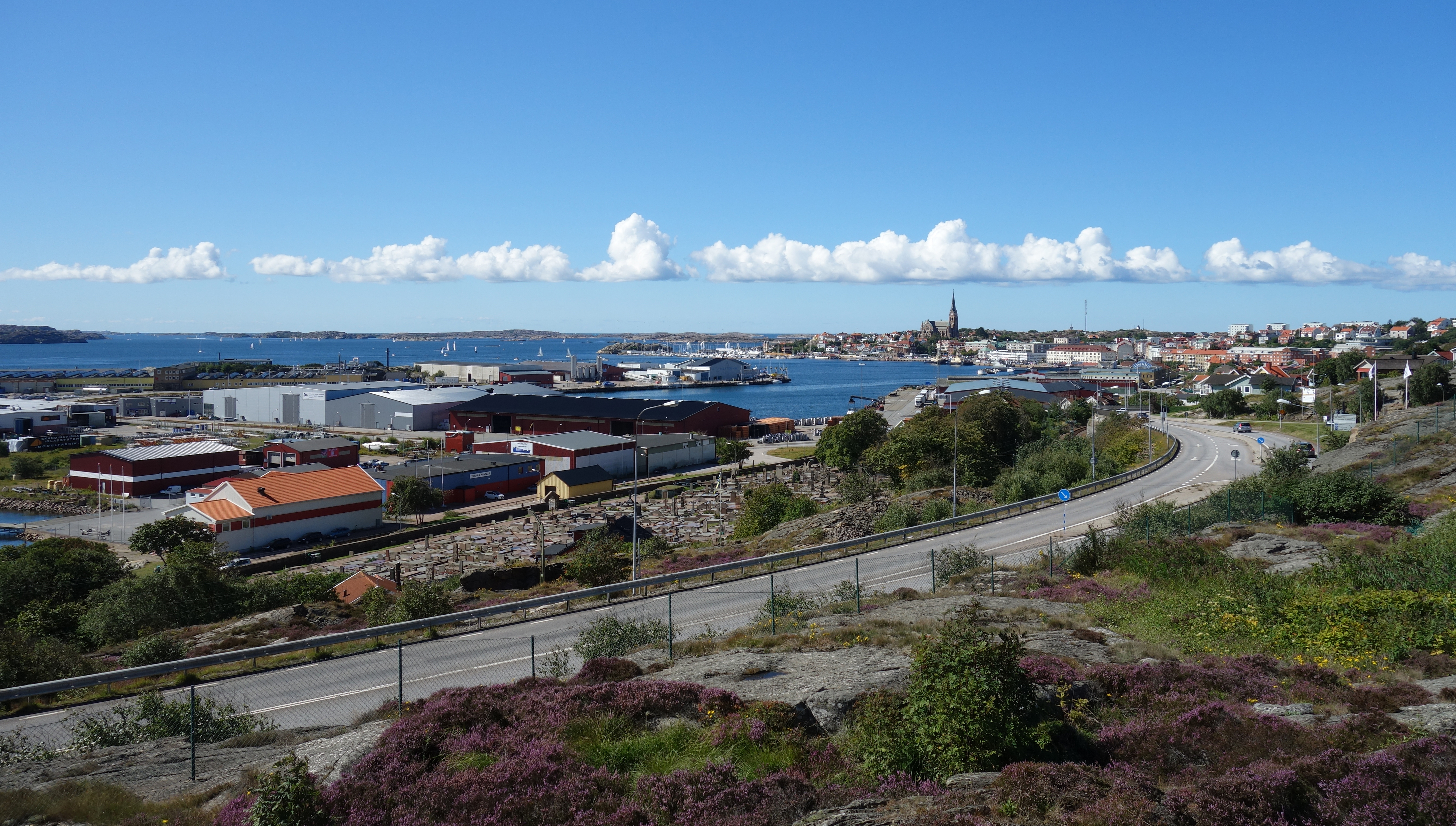 Southeast Lysekil, the inlet, Grötö industrial area and the south harbour seen from Åkerbräckan, Sweden. The Åkerbräckan cemetery in the forefront.